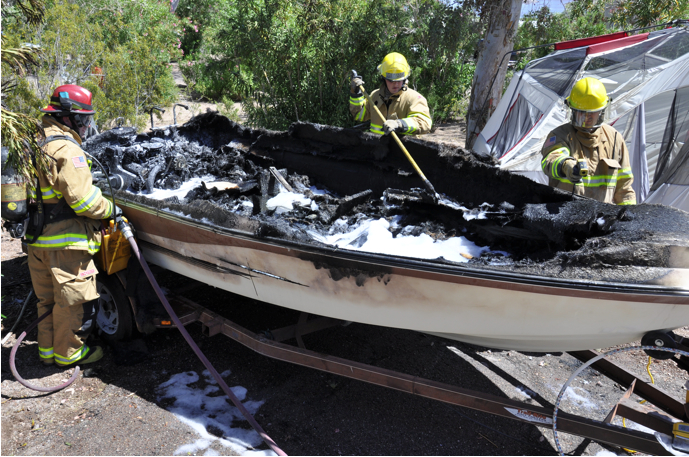 BOULDER CITY, Nev. (Apr. 22, 2011) - National Park Service rangers and Boulder City firefighters extinguish a boat fire located in the Boulder Beach campground caused by ignited fuel vapors. No injuries.